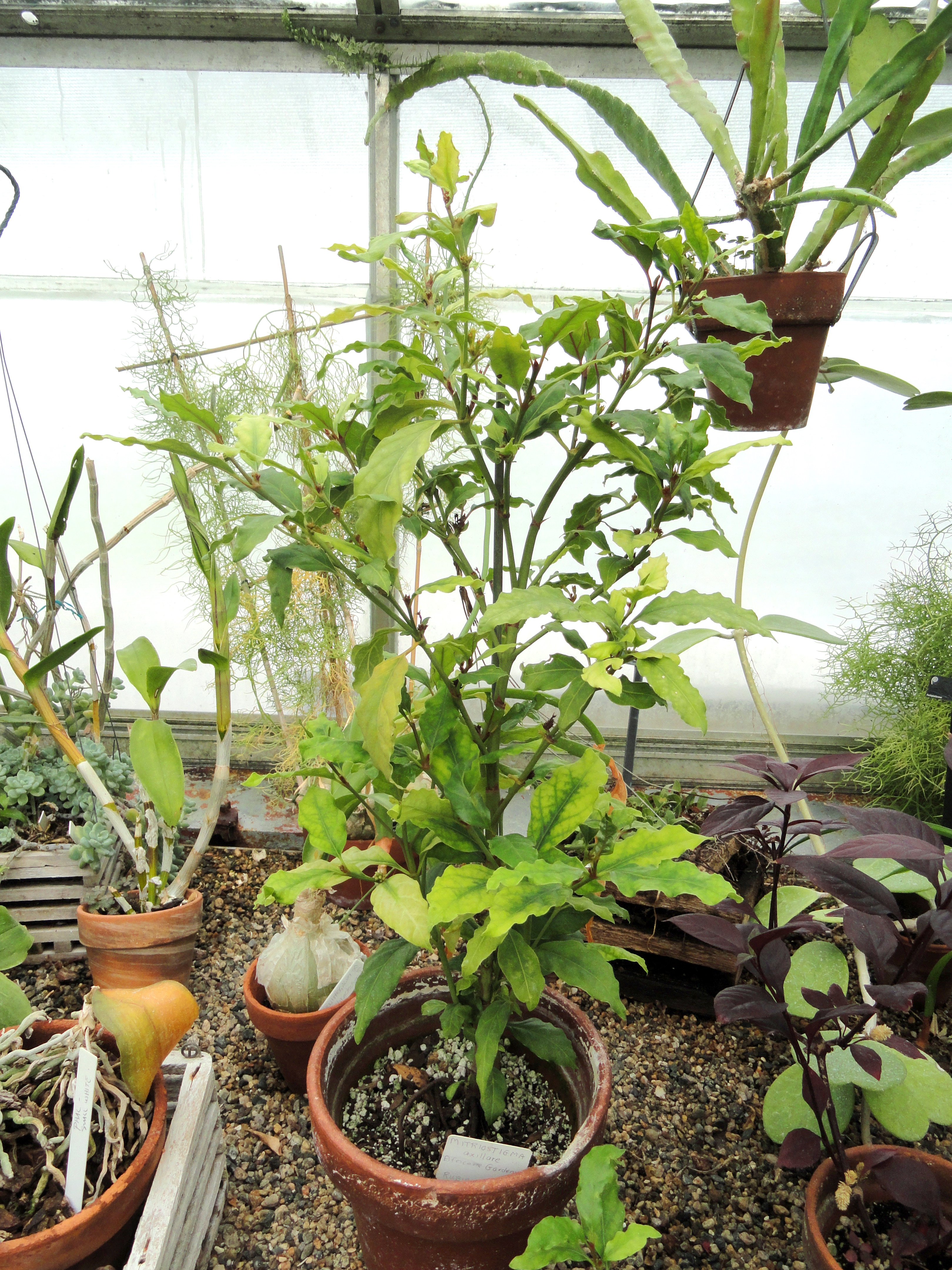 Botanical specimen in the Margaret C. Ferguson Greenhouses, Wellesley College Botanic Gardens, Wellesley College, Wellesley, Massachusetts, USA.